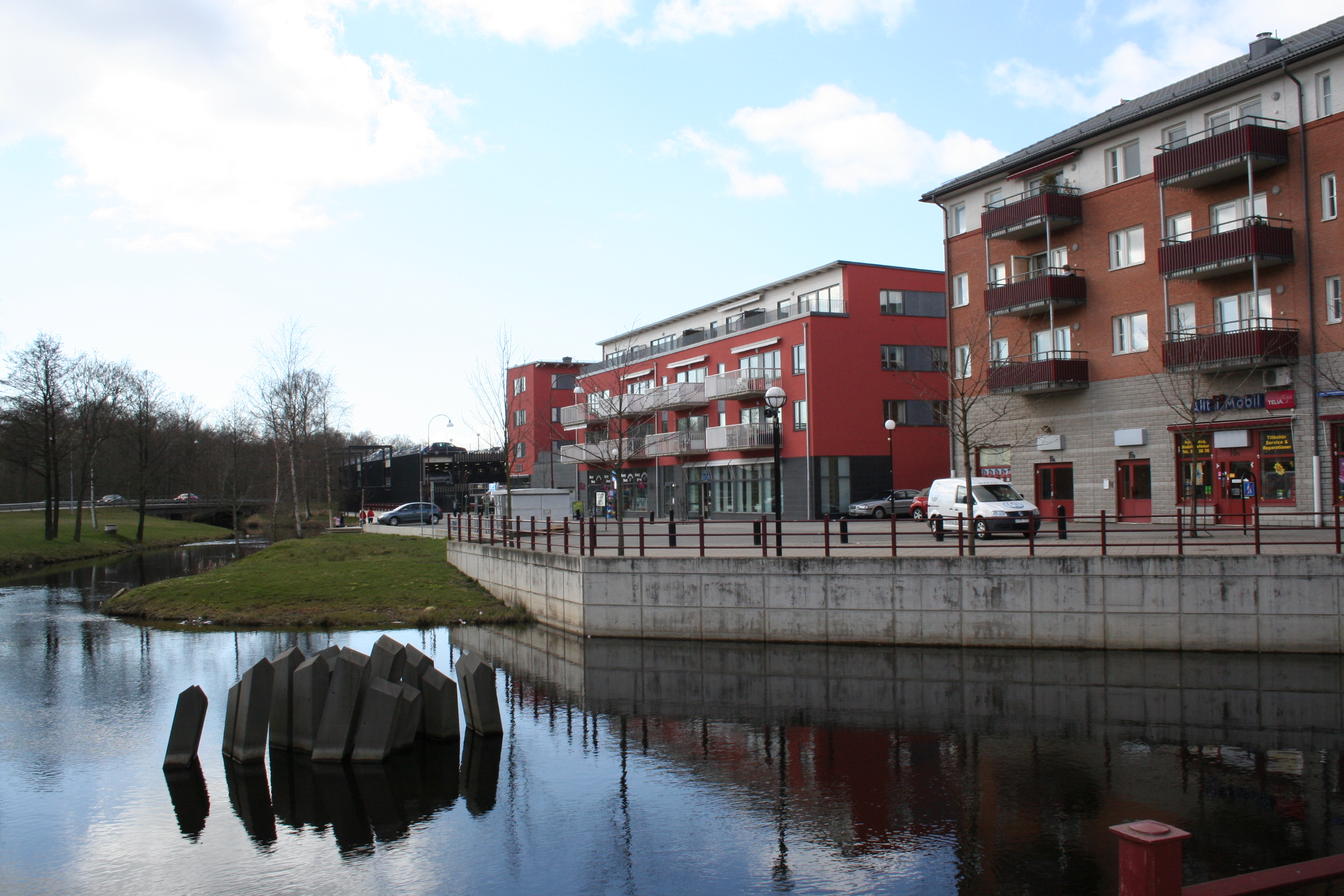 Mölnlycke